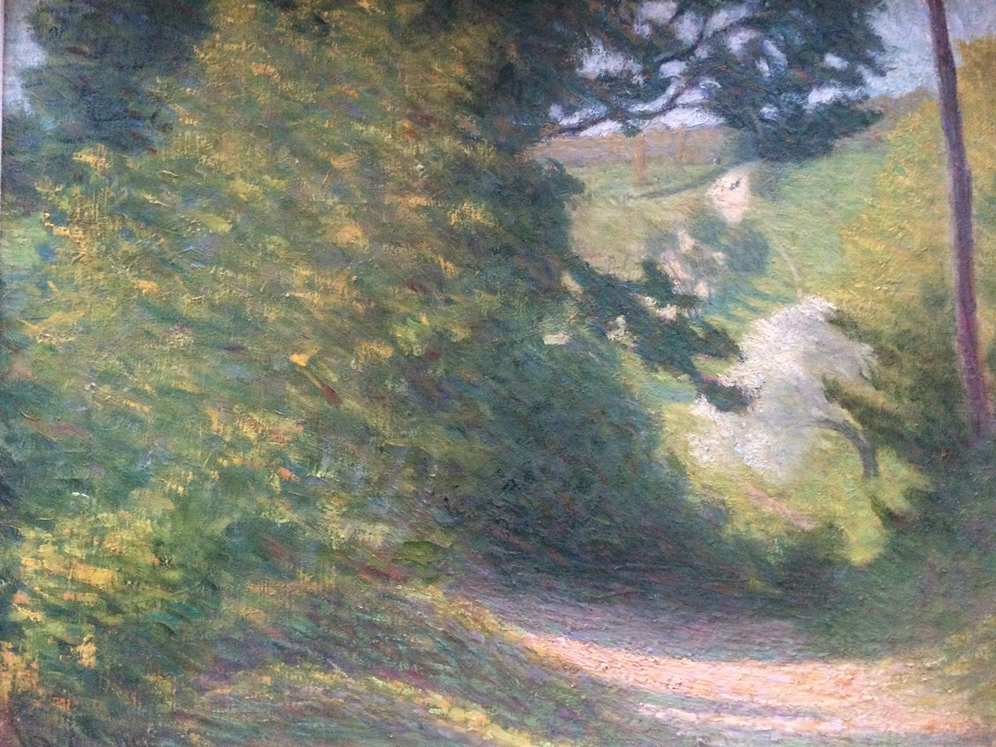 Henri Beau's painting entitled "Chemin en ete" painted in 1895.